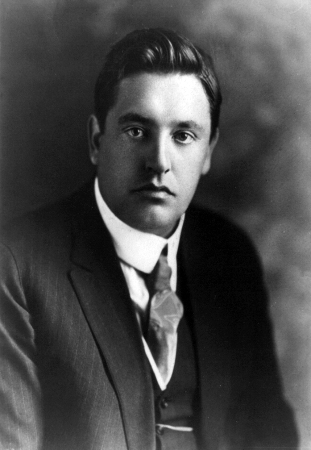 John McCormack, Irish tenor